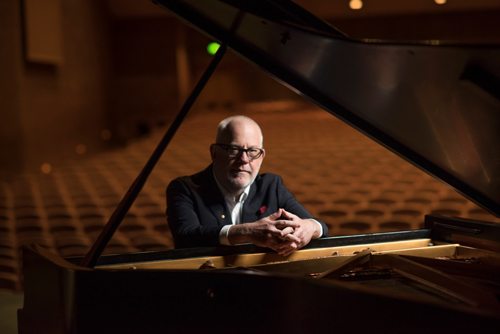 Paul Grabowsky sitting at a piano in 2016